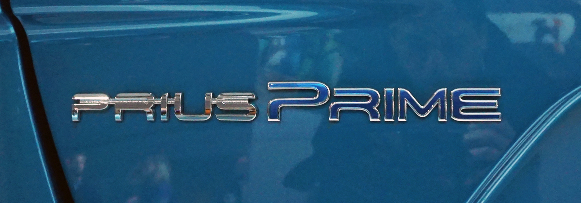 2017 Toyota Prius Prime badge